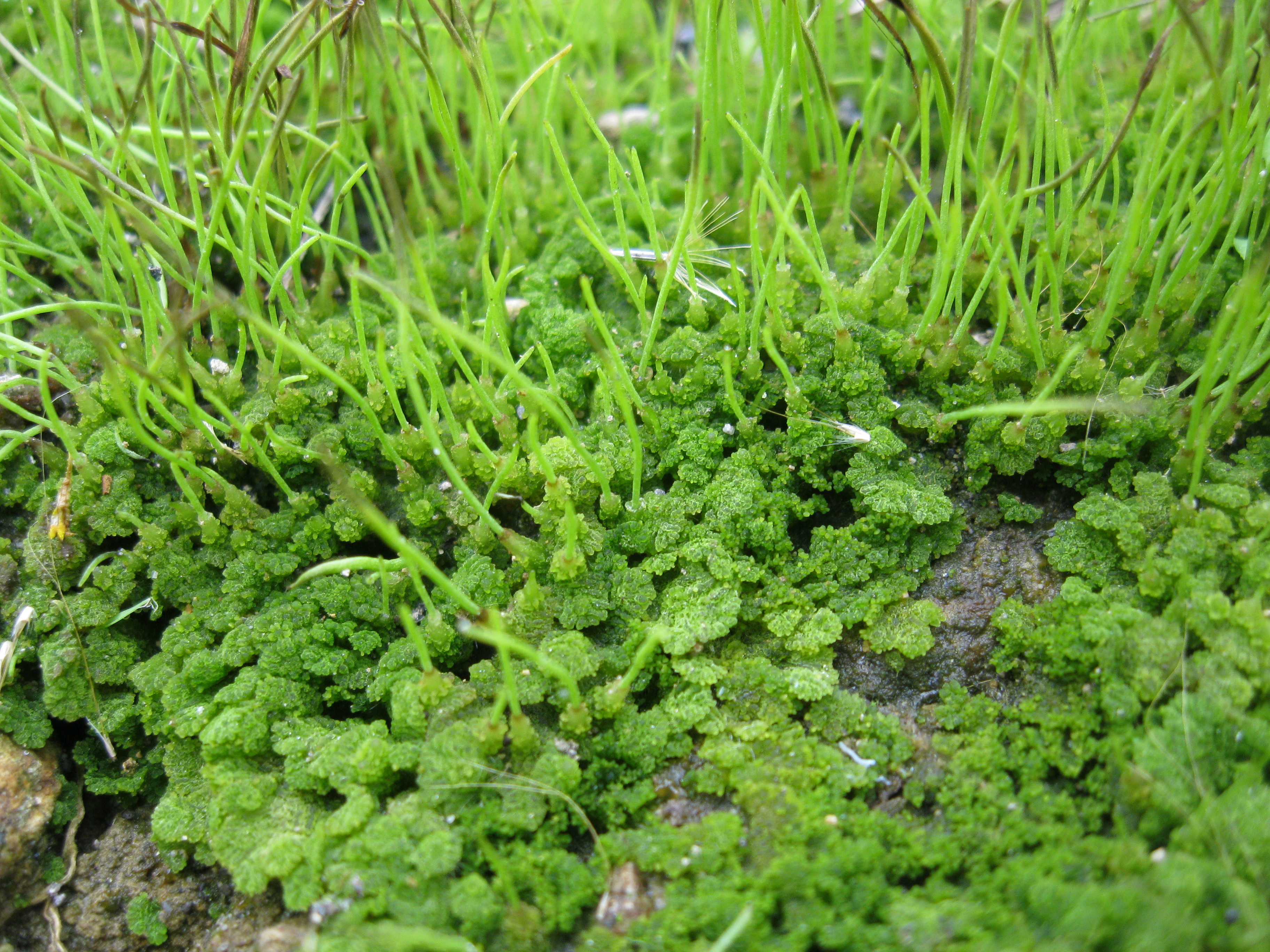 Anthoceros sp found in Cangkringan, Yogyakarta, Indonesia